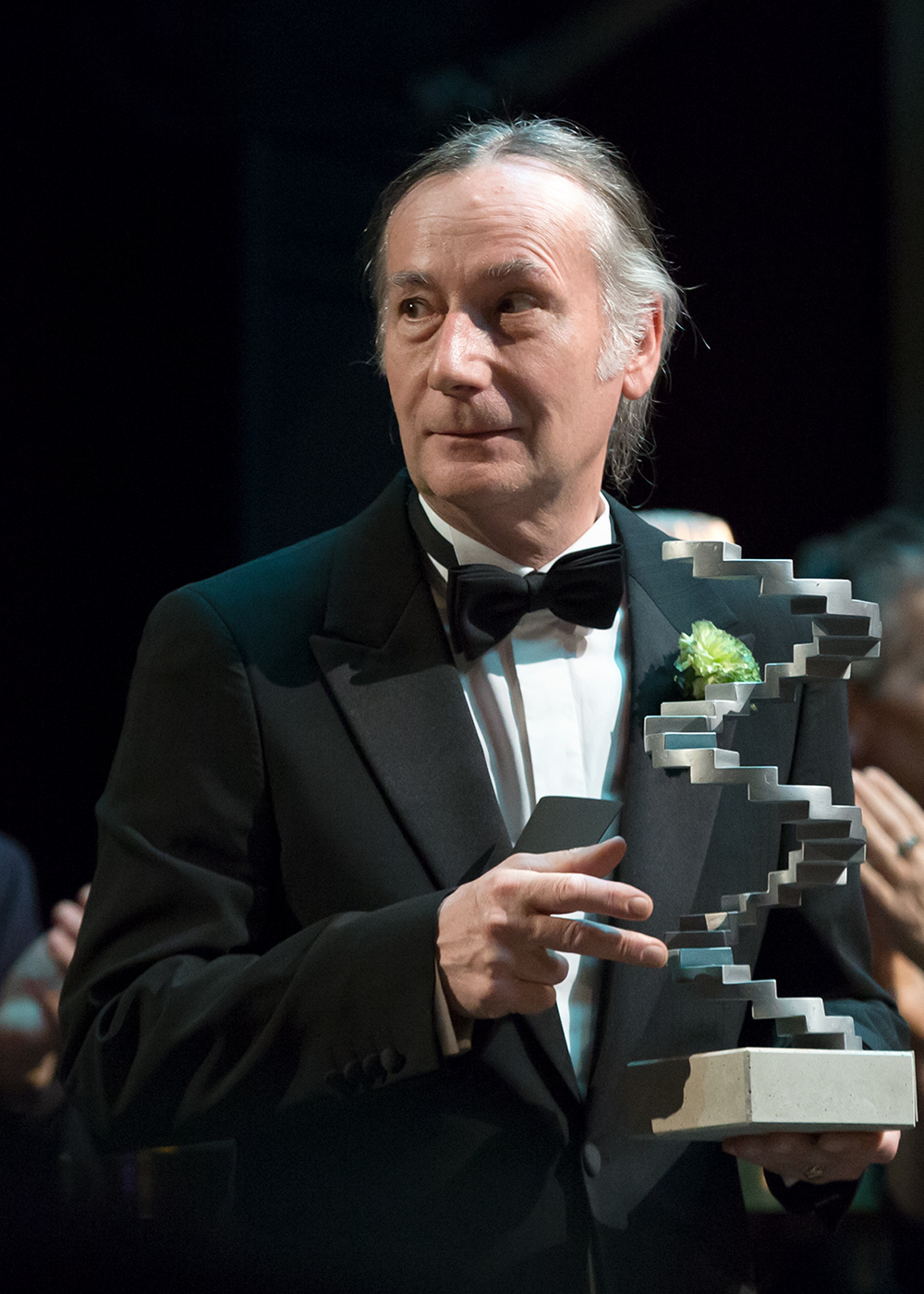 Lothar Scherpe presenting the award for best music at the Austrian Film Awards 2017 (Rathaus, Vienna,Austria).